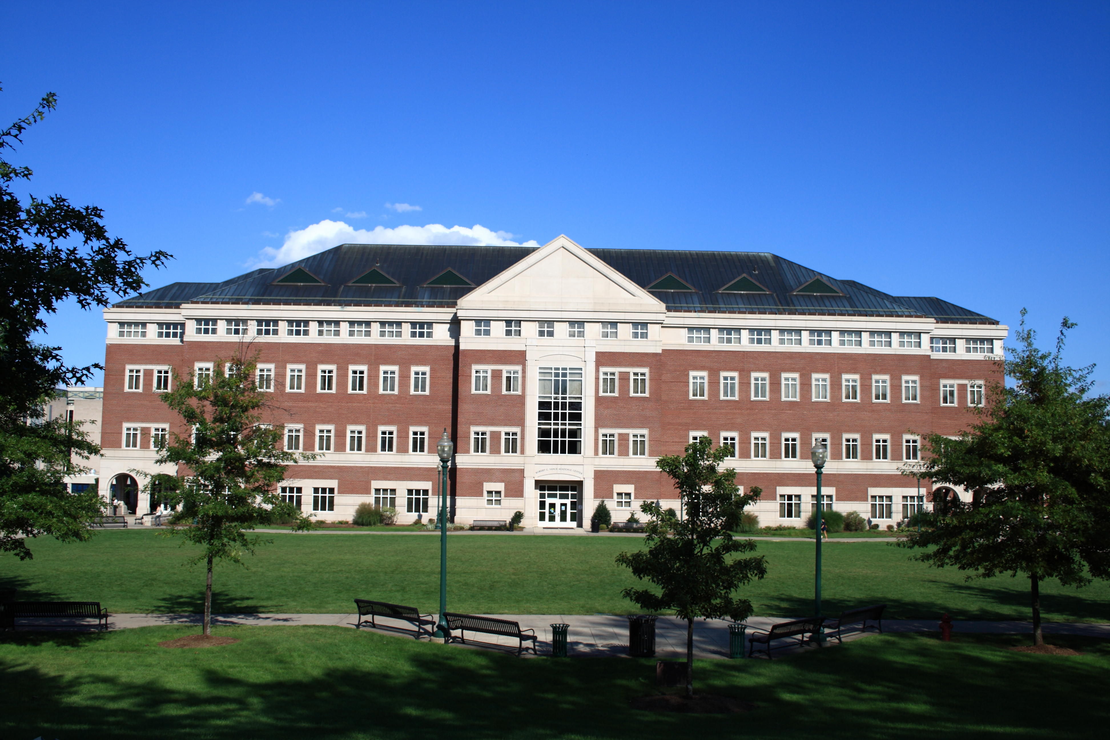 Vance Academic Center on the Central Connecticut State University campus - OpenStreetMap (Info)